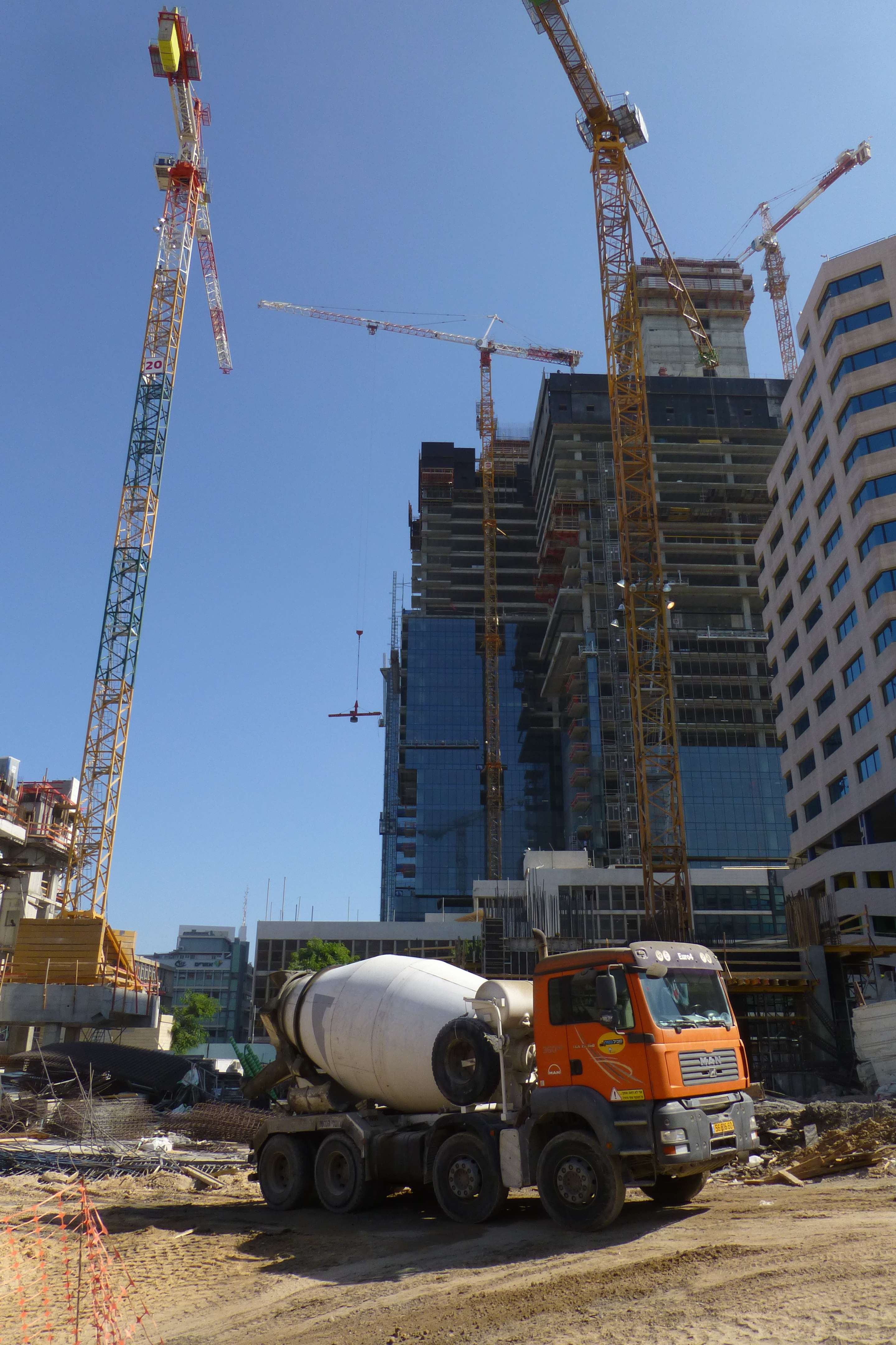 Begin Road, Tel Aviv-Yafo